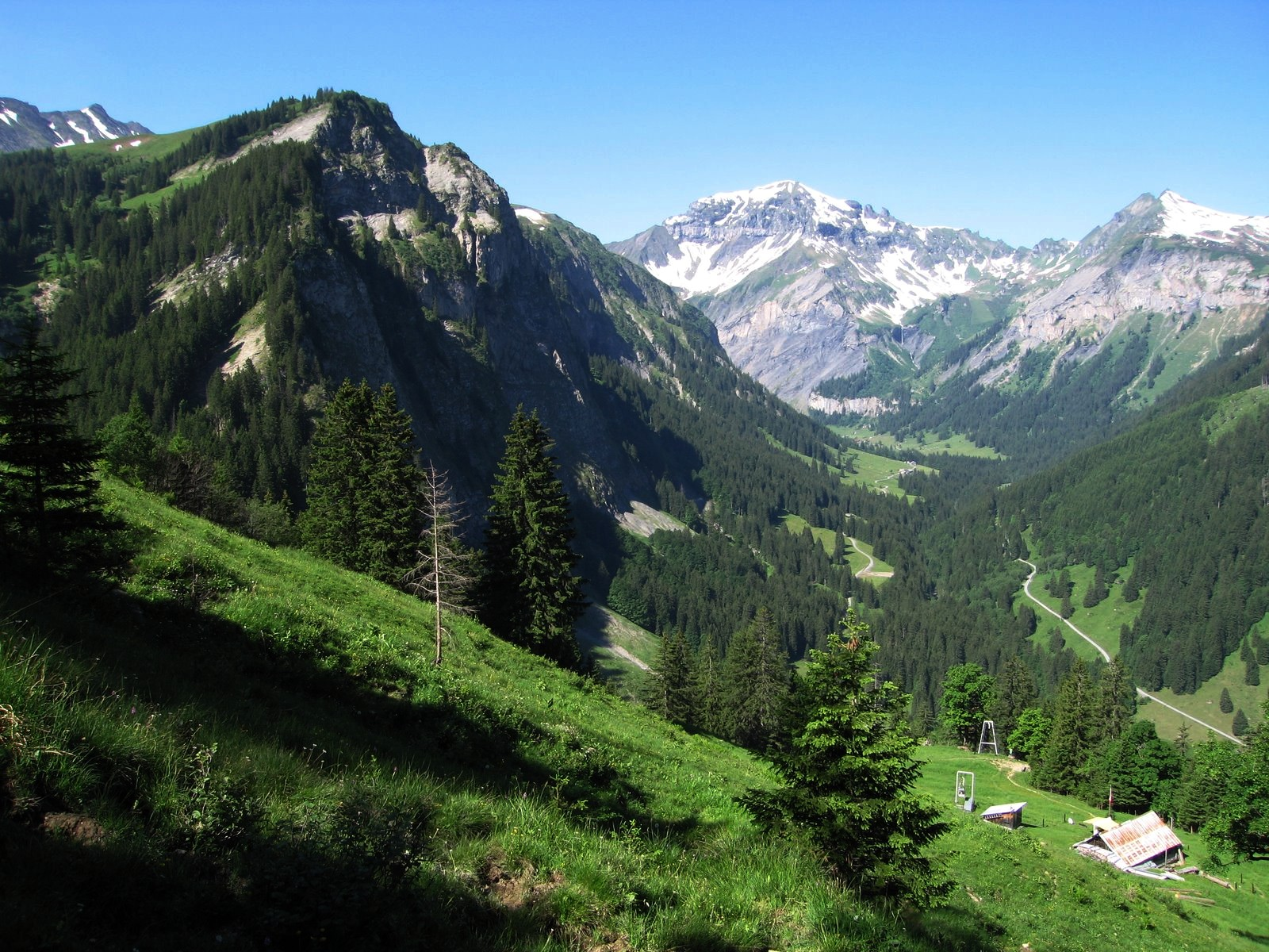 Weisstannental (Ruchen in the background), canton of St. Gallen.